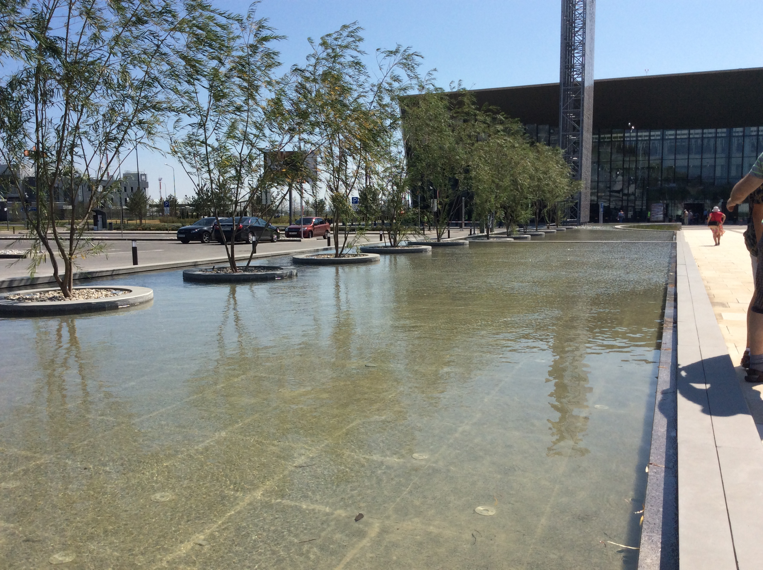 Saratov Gagarin Airport 2 days after opening.